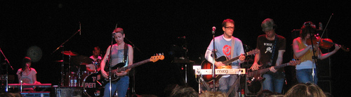 The Rentals